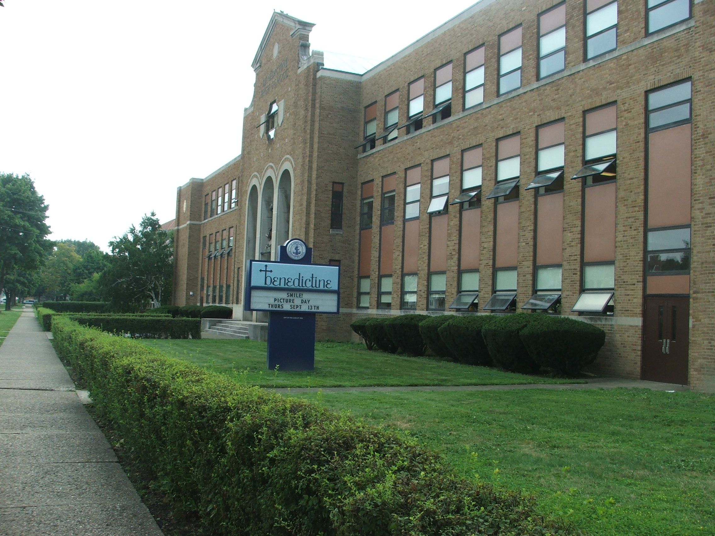 Front of Benedictine high school